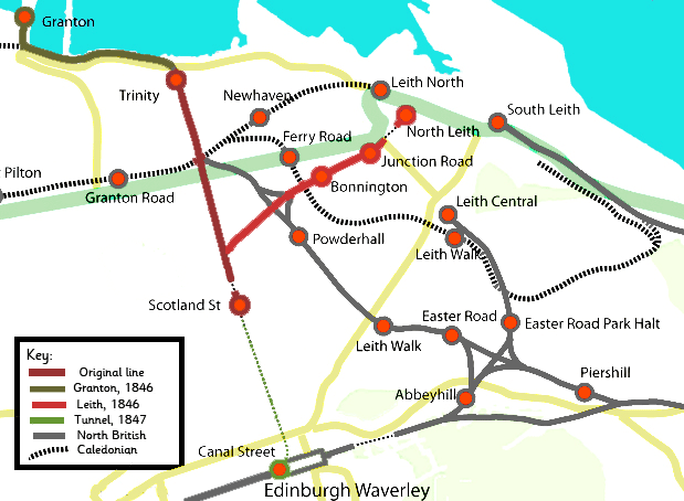 Historical railway map